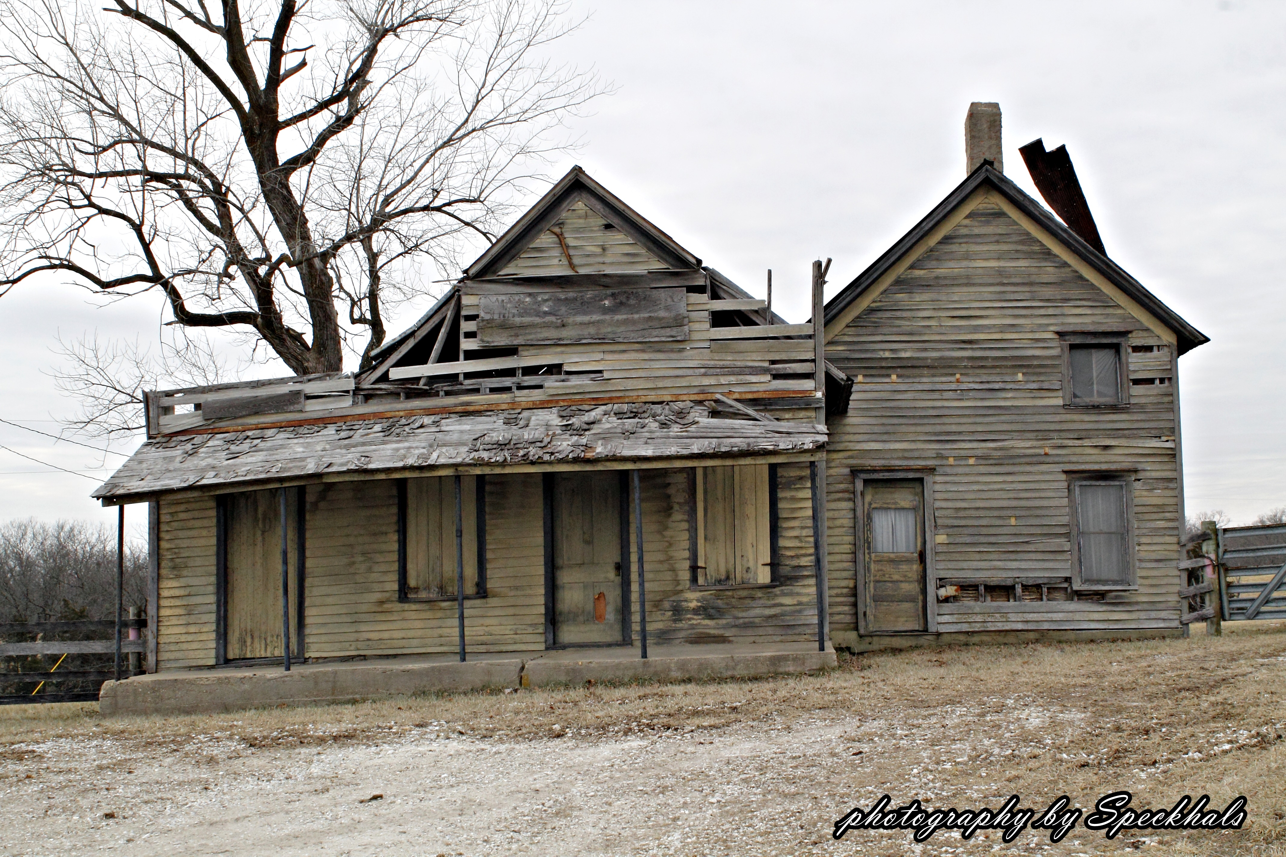 Pitcher Store in Fulton Mo. While out back roading road of Callaway county freestyling I came upon this. I was speechless for a moment. I have been a photographer for few years now. And love going out and finding things old and abandon.